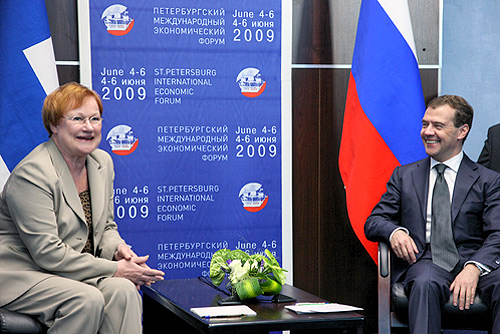 ST PETERSBURG. With President of Finland Tarja Halonen.